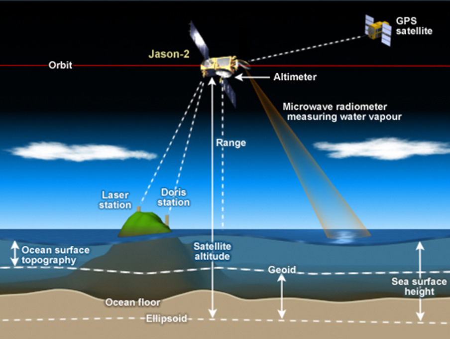 How satellite radar altimetry works Satellite radar altimeters measure the ocean surface height (sea level) by measuring the time it takes a radar pulse to make a round-trip from the satellite to the sea surface and back. This diagram shows how the Jason satellite series measure ocean surface height and how that is used to estimate the topography of the ocean floor.